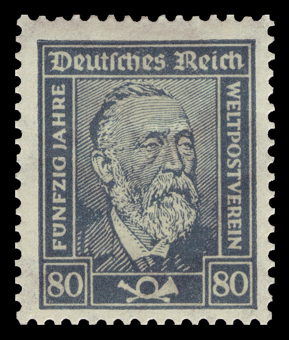 stamp for 50 years of the world post union, foundet by Heinrich von Stephan (1831-1897) Graphics by unbekannt Ausgabepreis: 80 Pfennig First Day of Issue / Erstausgabetag: Mai 1924 Michel-Katalog-Nr: 363 (Deutsches Reich)